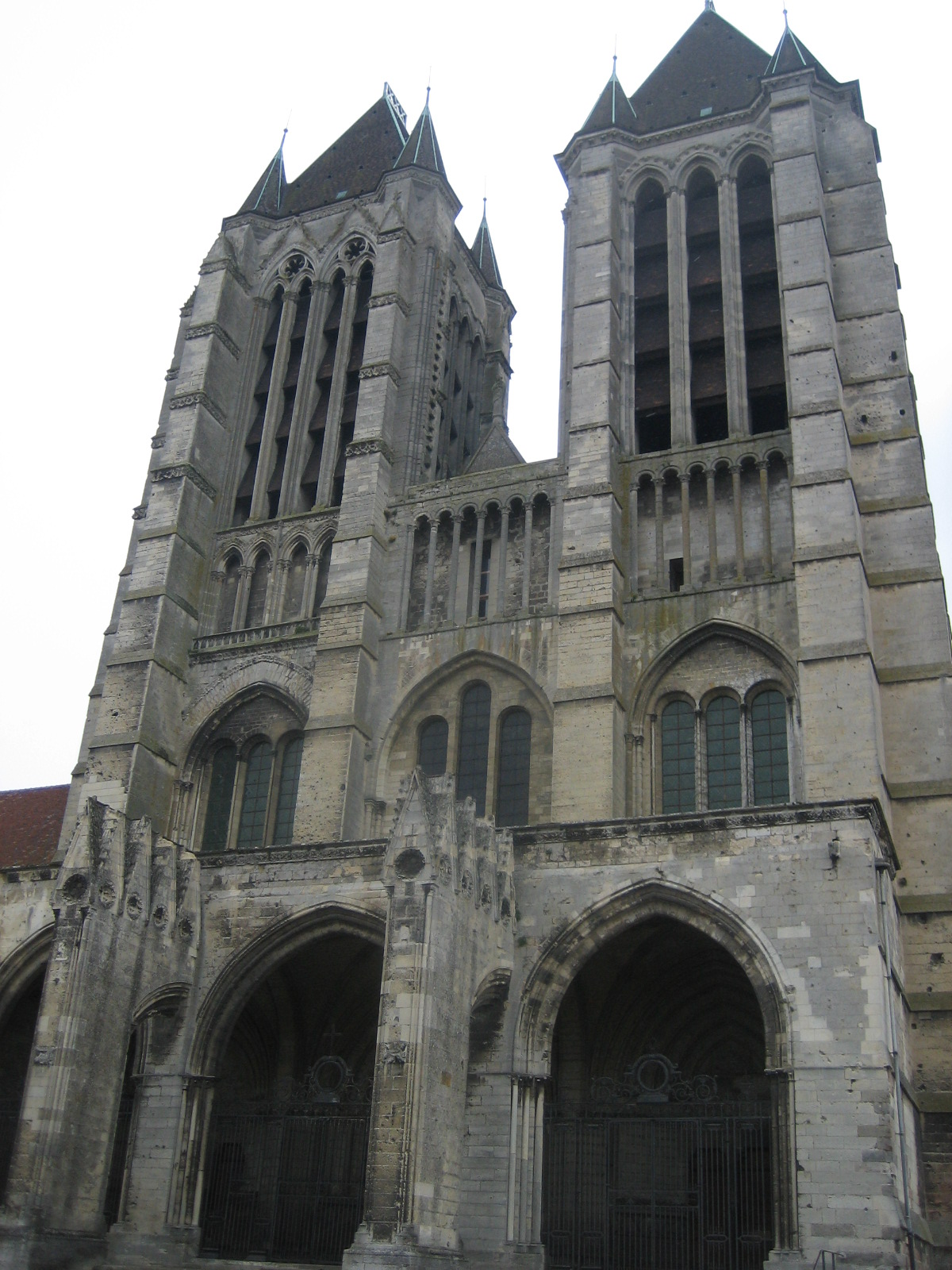 Noyon Cathedral